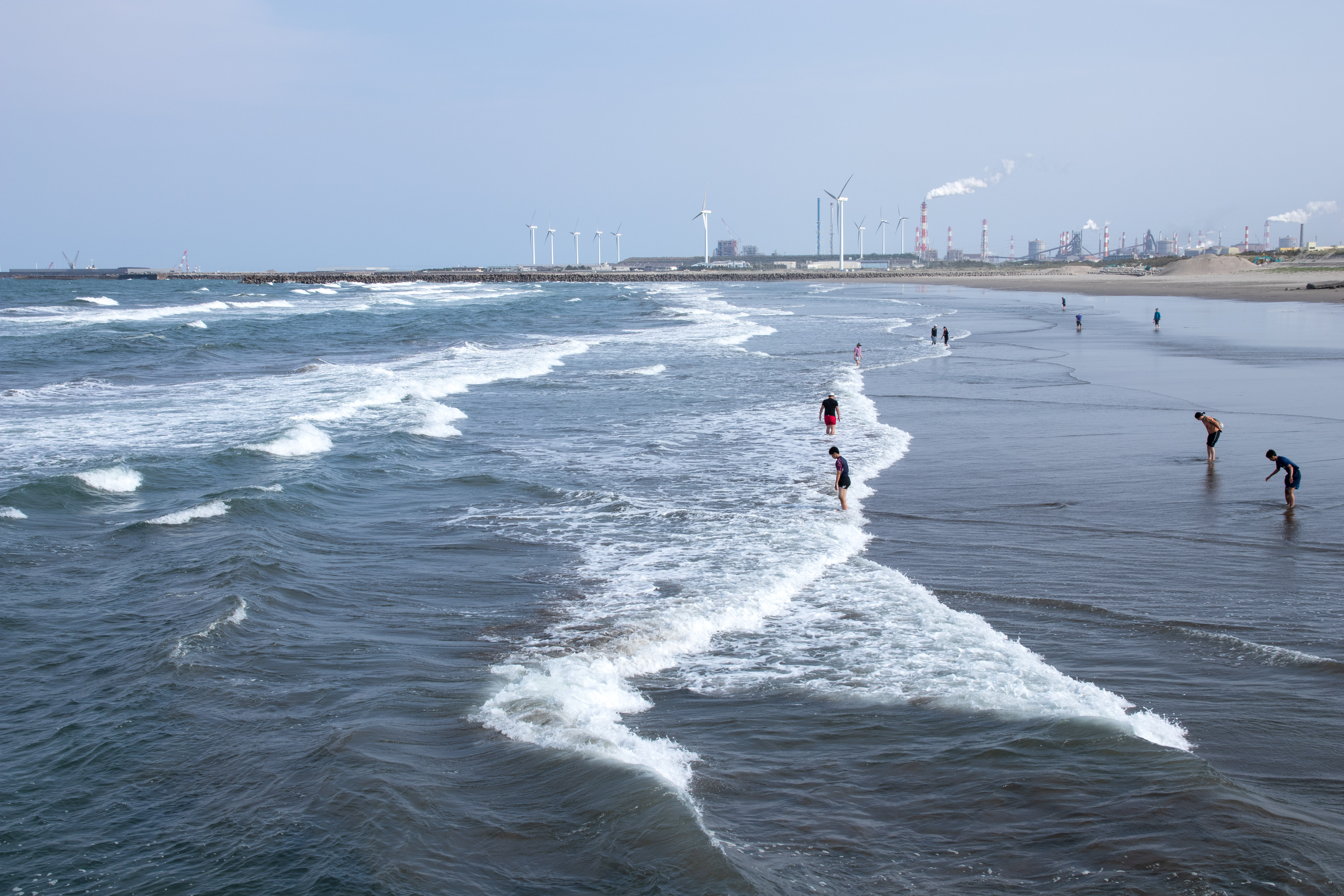 Oritsu Beach, Kashima City, Ibaraki, Japan